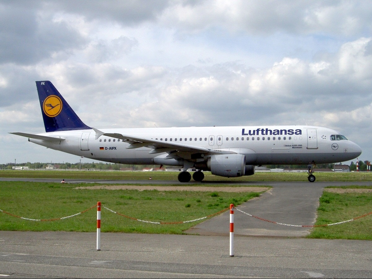 Photographed at Aircraft at Berlin Tegel Airport